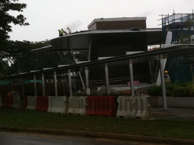 Lift shaft and sheltered walkway towards the Botanic Gardens